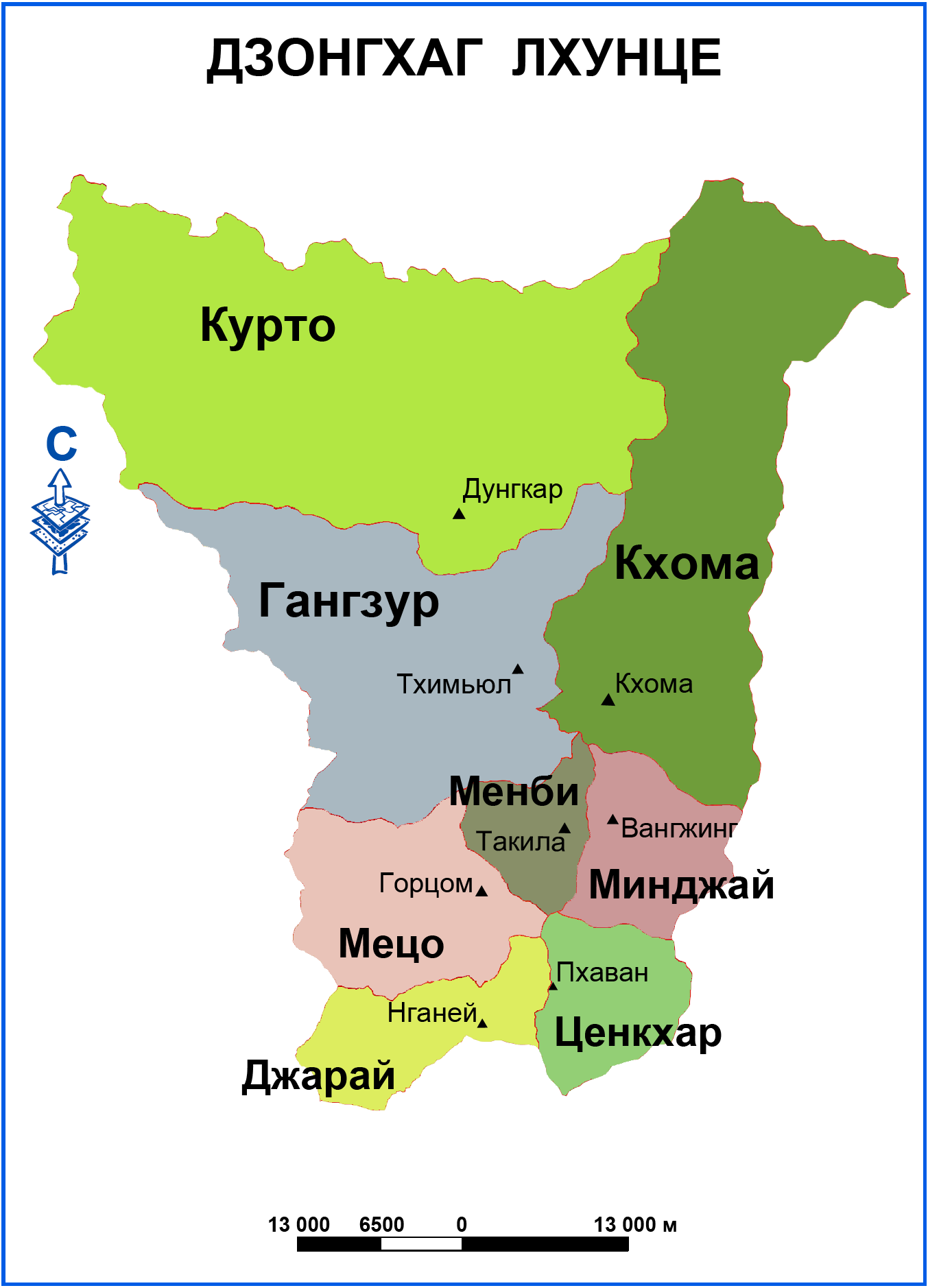 Lhuntse District map, Bhutan, 2010